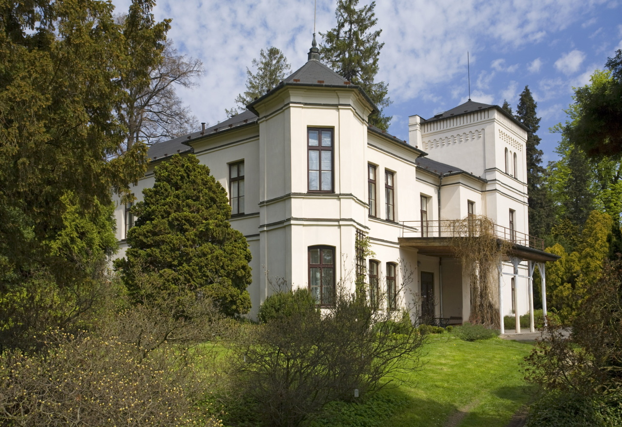 Silesian museum-Arboretum